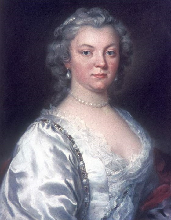 Catherine Decker, portrait c.1744 by William Hoare; Fitzwilliam Museum, Cambridge. Eldest daughter and co-heiress of Sir Matthew Decker, 1st Baronet, of Richmond in Surrey, and wife of Richard FitzWilliam, 6th Viscount FitzWilliam (1711-1776) of Mount Merrion, near Dublin, Ireland.